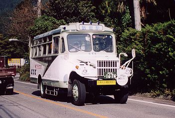 restored old bus "Sawarabi-go" used in Kokusai Kogyo in Japan